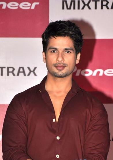 Shahid at Pioneer's Mixtrax sound systems launch